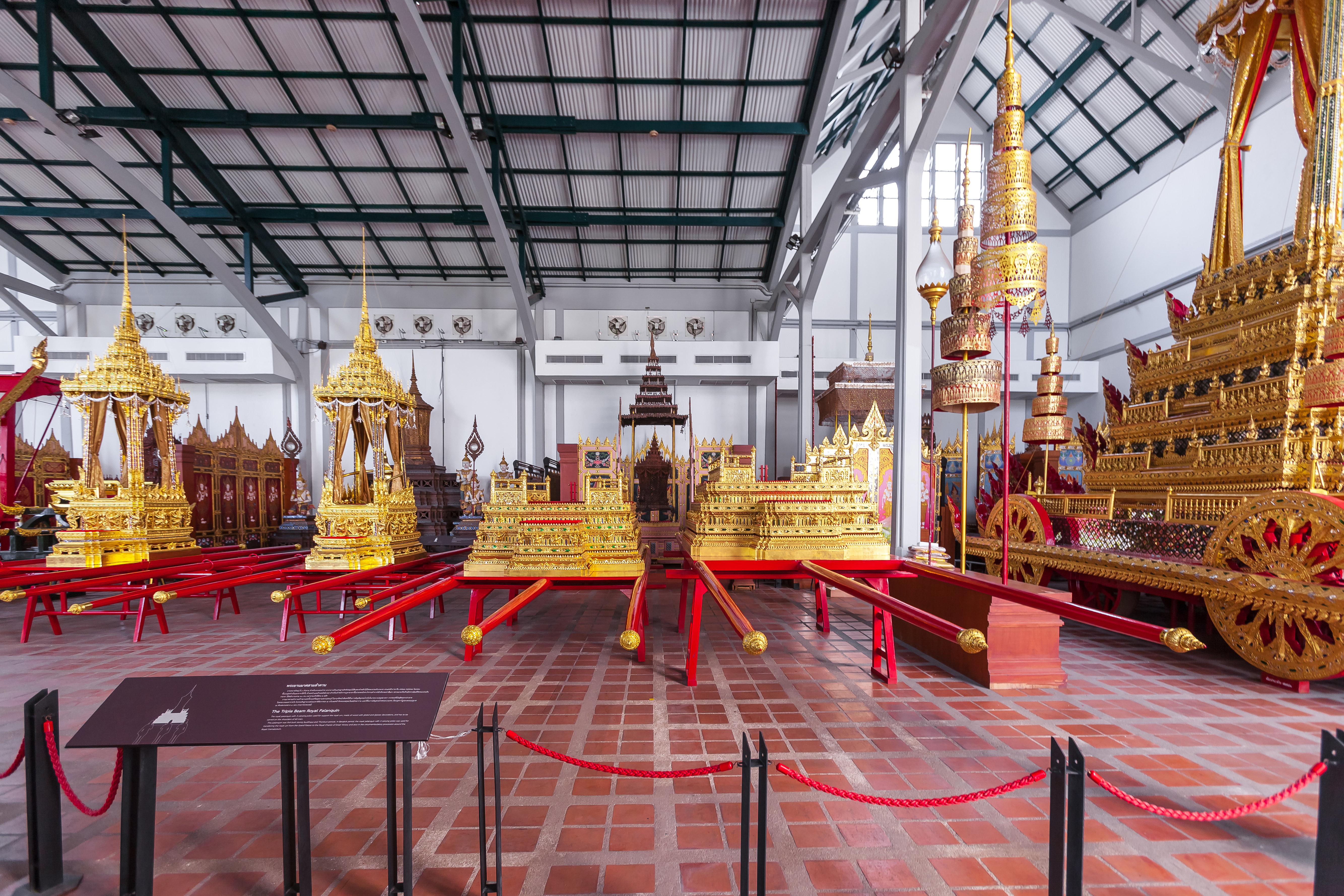 Phra Yanna Mat Sam Lam Khan, Bangkok National Museum.